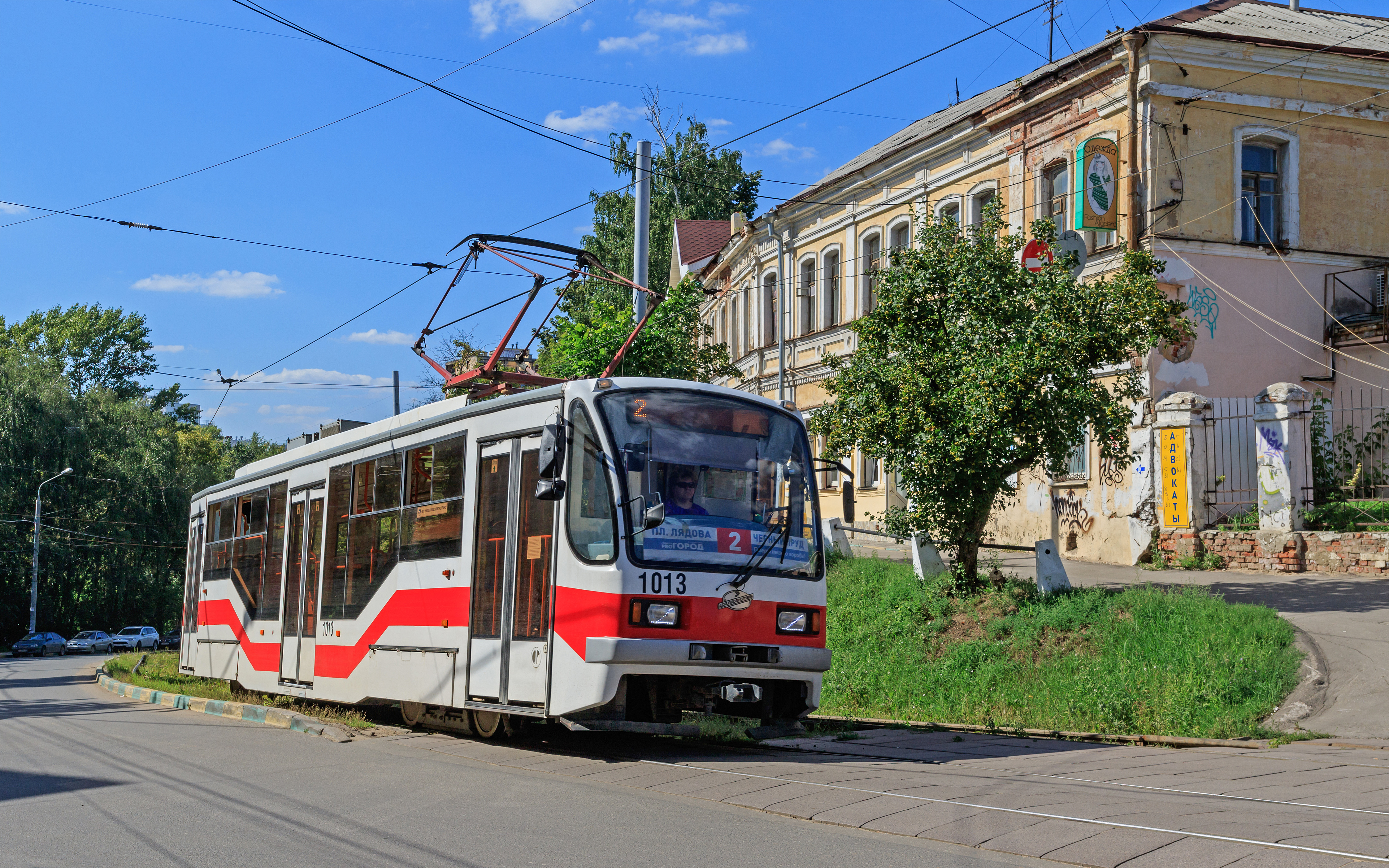 UTM-7 tram at Oktyabrskaya Street. Nizhny Novgorod, Russia.